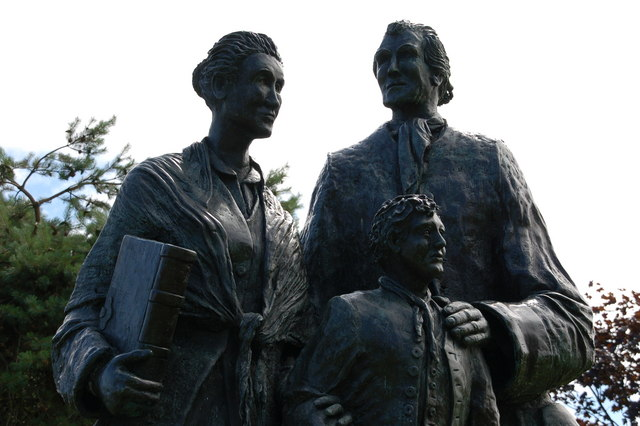 Emigrants memorial, Larne. This statue in the Curran Park, Curran Road, Larne was unveiled in 1992 to commemorate the departure of the first emigrants from Larne to America. They left onboard the “Friends Goodwill” in 1717.